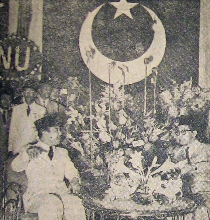 President Sukarno speaking at a convention of the Masyumi Party.